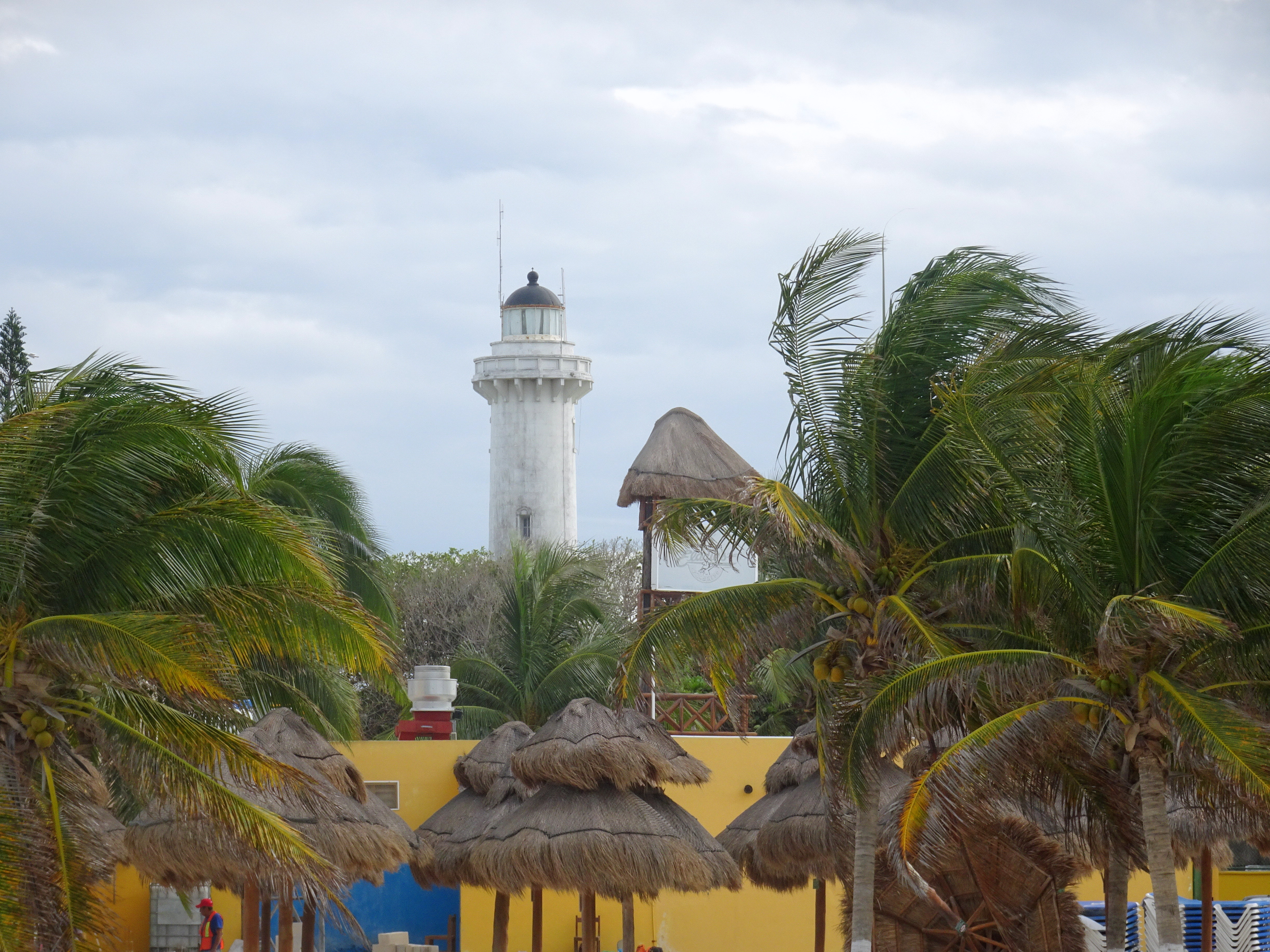 The lighthouse in Progreso de Castro, November 2018